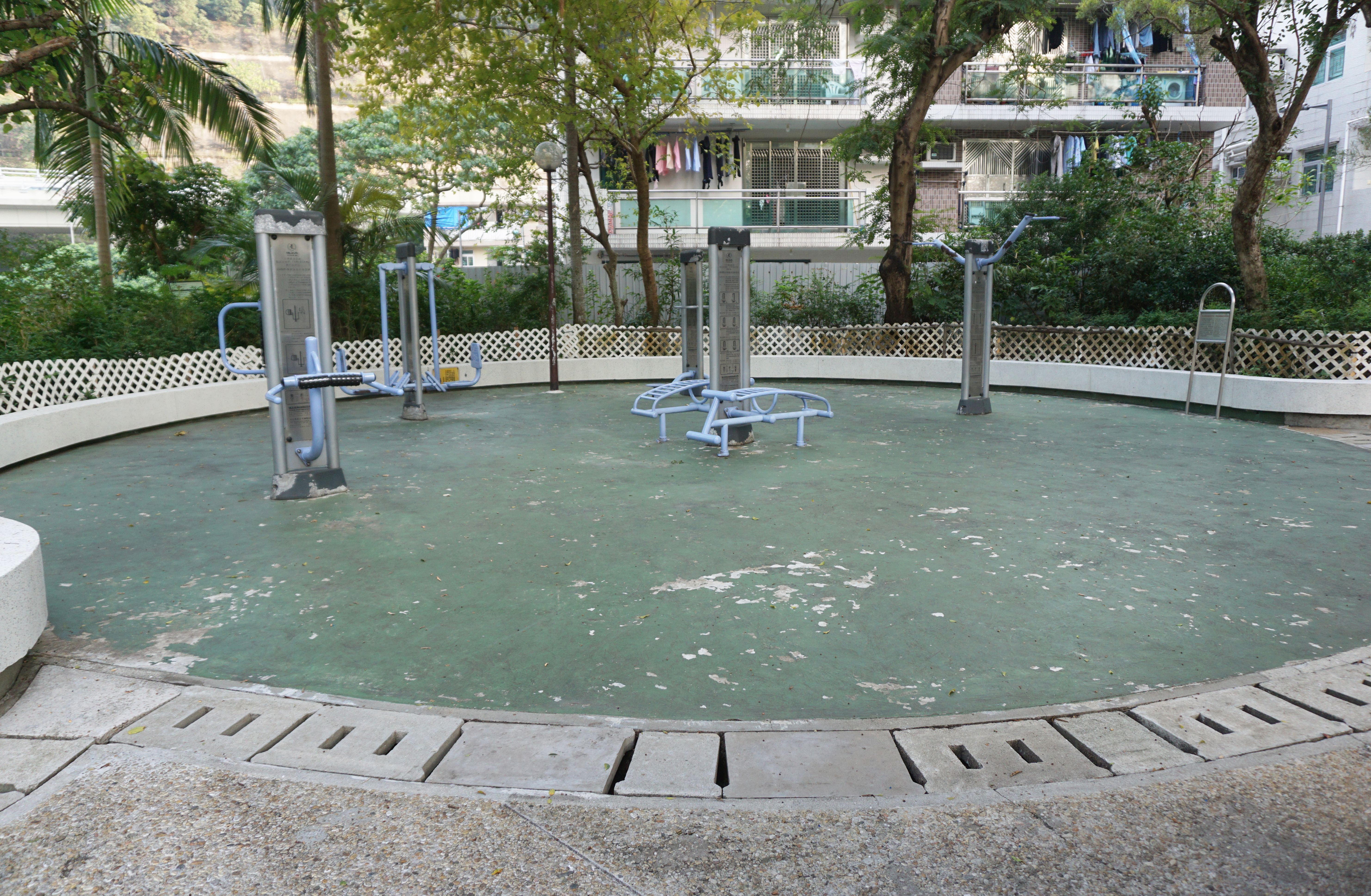 Fung Shing Court in Sha Tin Tau, Hong Kong.